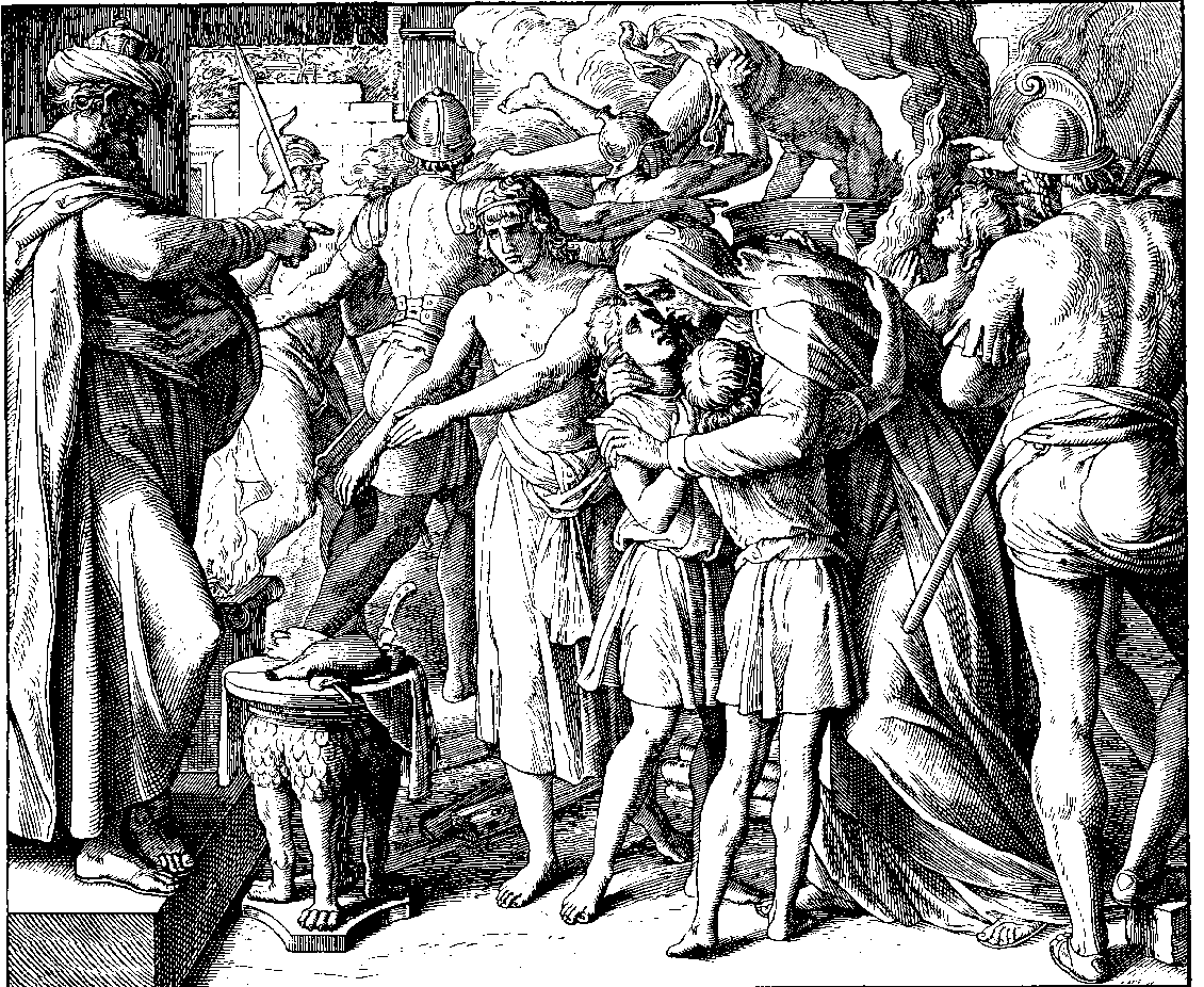 Woodcut for "Die Bibel in Bildern", 1860.